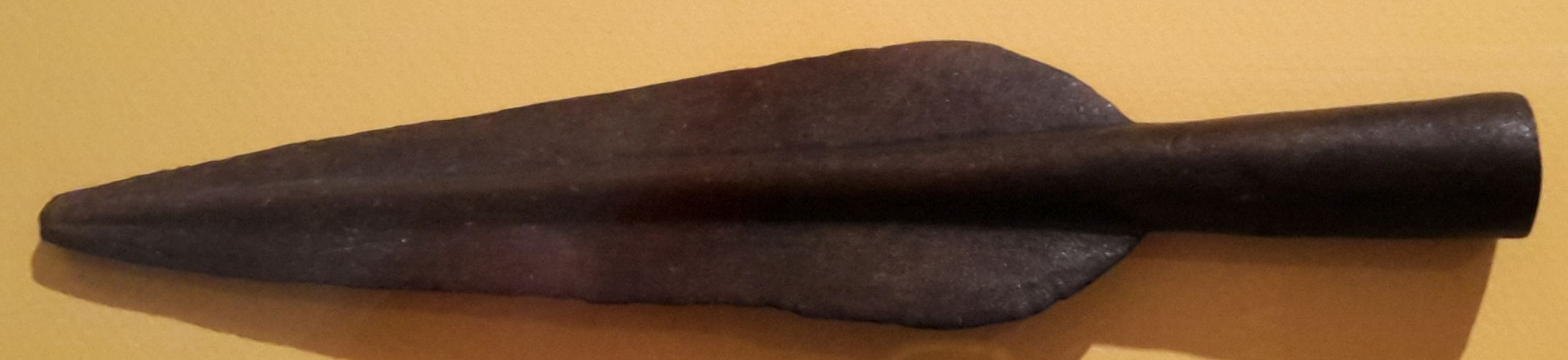 Spear head made of bronze, Koblach Vorarlberg, Museum of Prehistory Koblach.